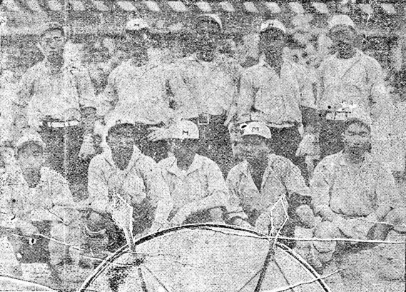 Football at the 1922 Korean National Sports Festival.